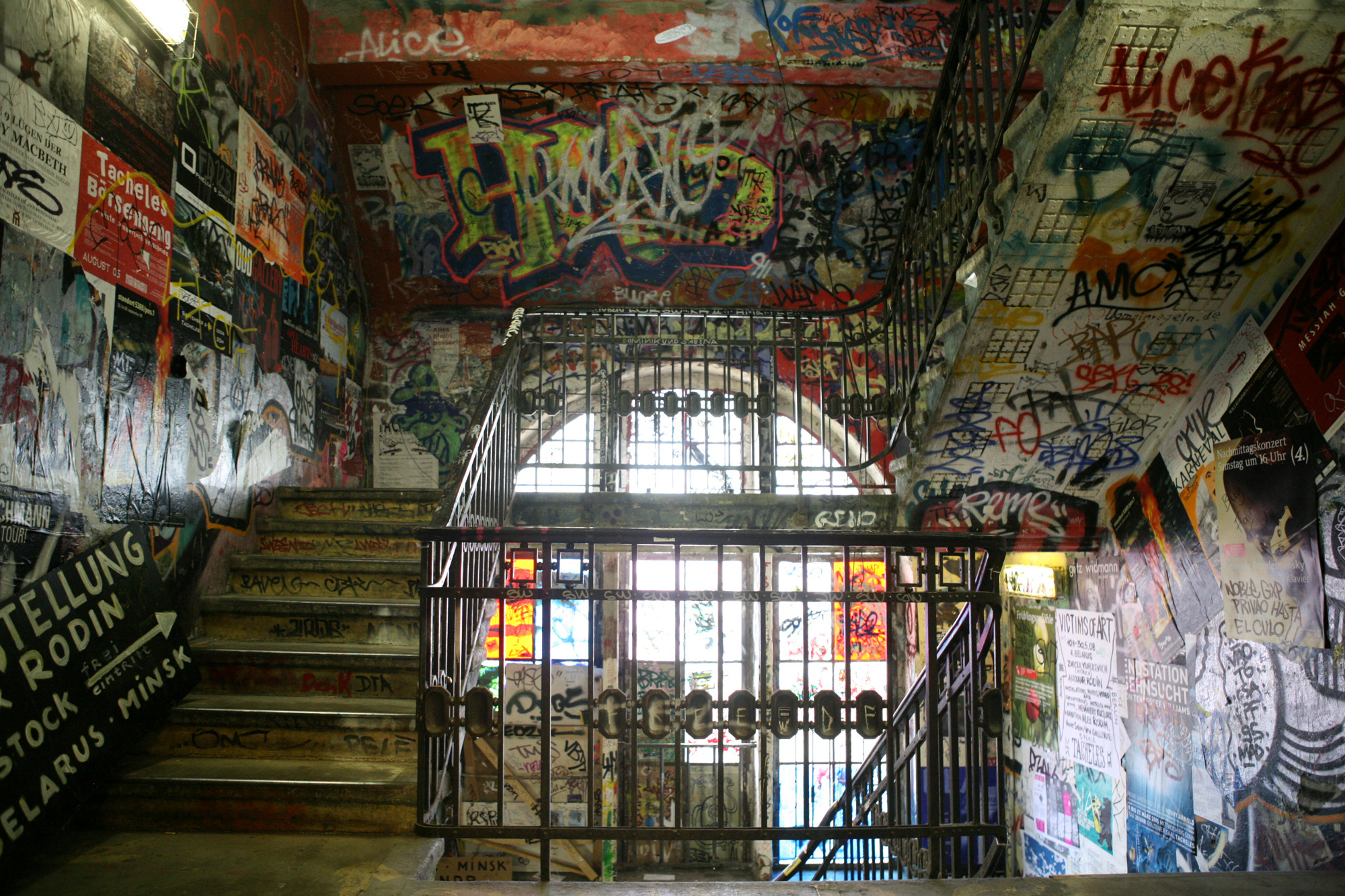 Berlin: Kunsthaus Tacheles stairway with Graffiti